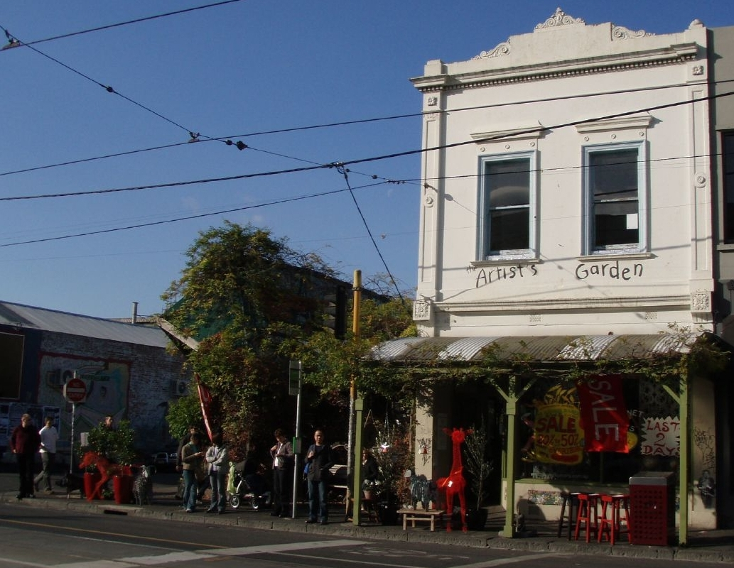 The Artist's Garden in Fitzroy, Melbourne, home of the Fitzroy Nursery and the annual grassroots Footy Arts Show.